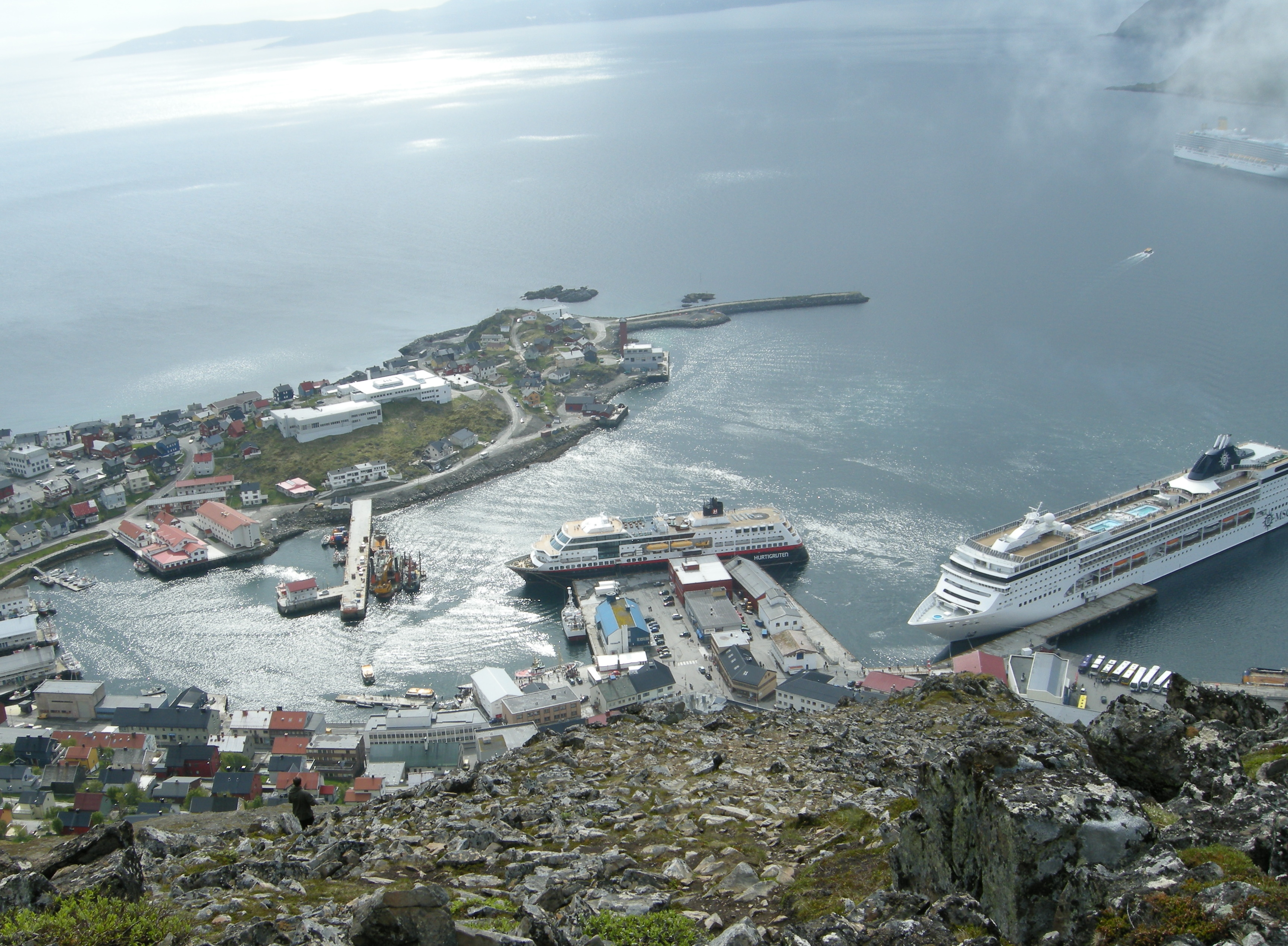 Honningsvåg harbour, North Cape.